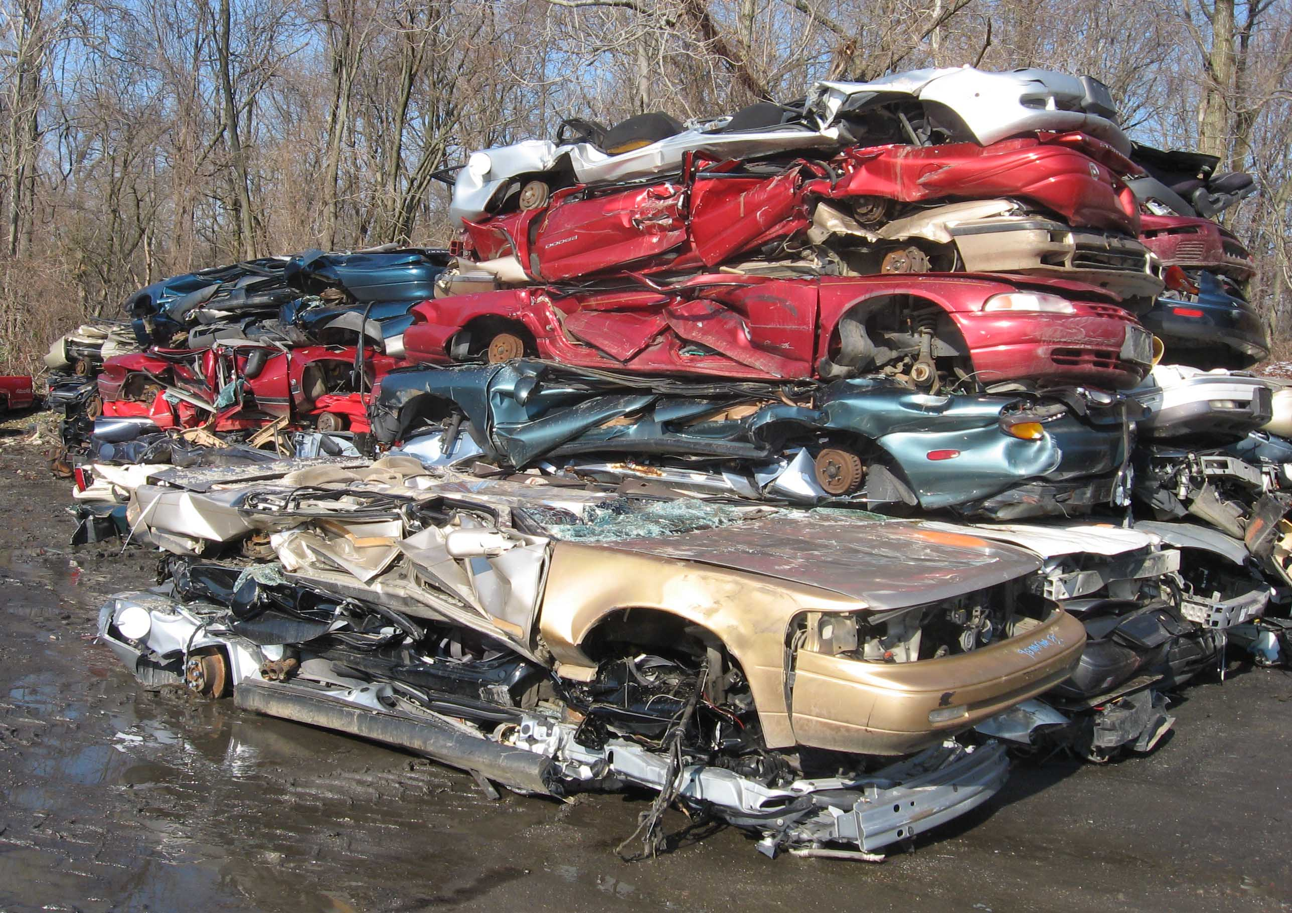 Crushed cars stacked at an auto scrapyard photographed in Fort Washington, Maryland, USA.